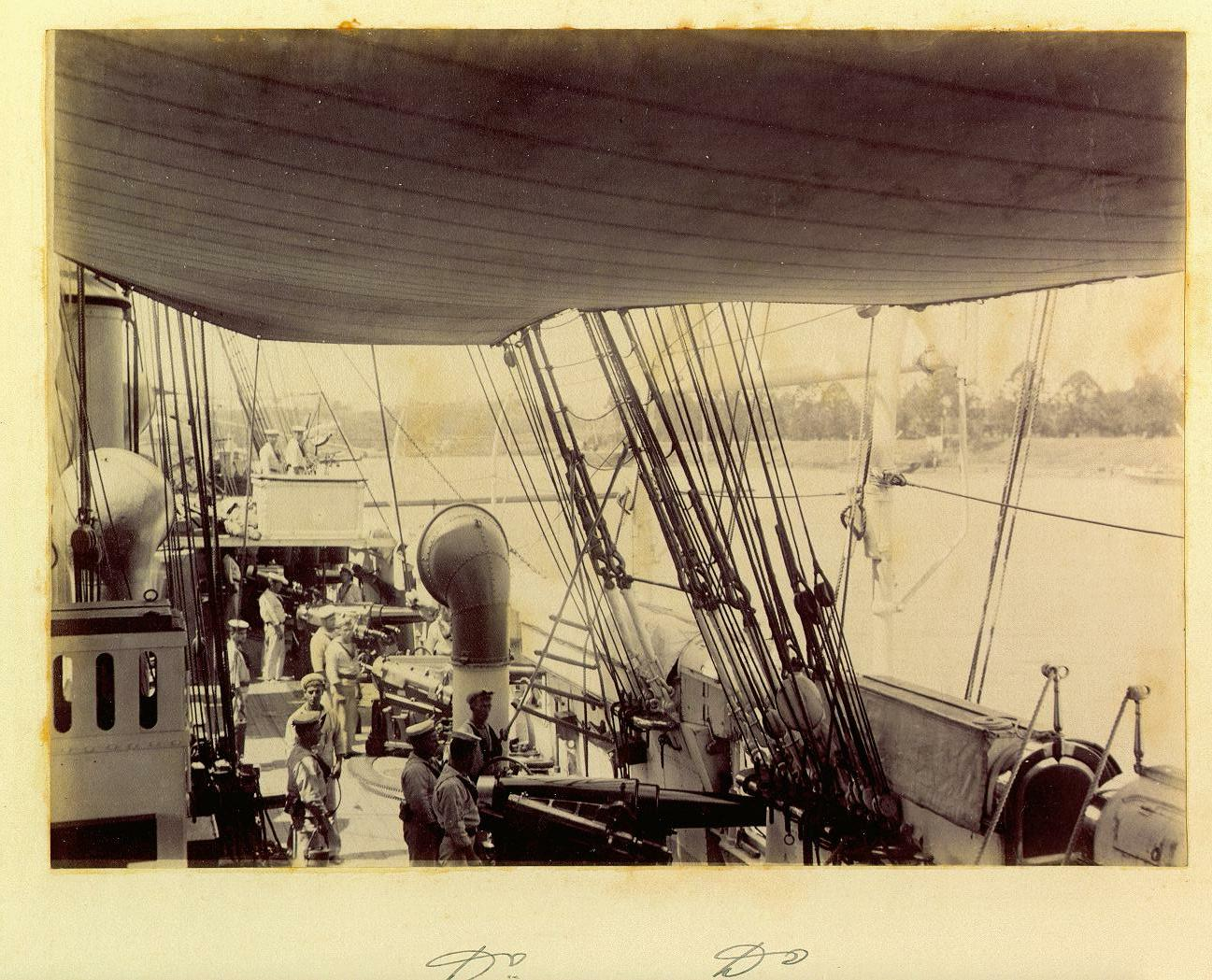 Photograph showing "General Quarters" on the British corvette HMS Pylades, Brisbane.